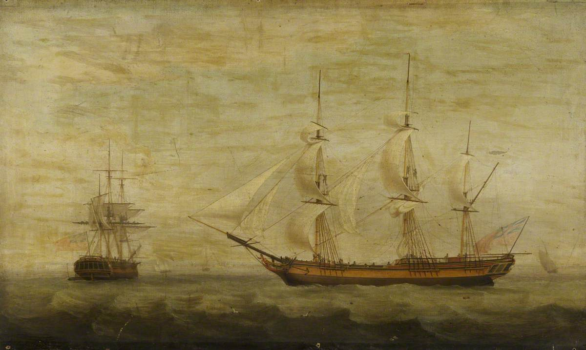 The merchantman 'Blenheim of London' (1790) 'Blenheim' is shown in two positions. On her stern counter she has 'Blenheim of London'. The painting is signed and dated '1793' in the lower left corner